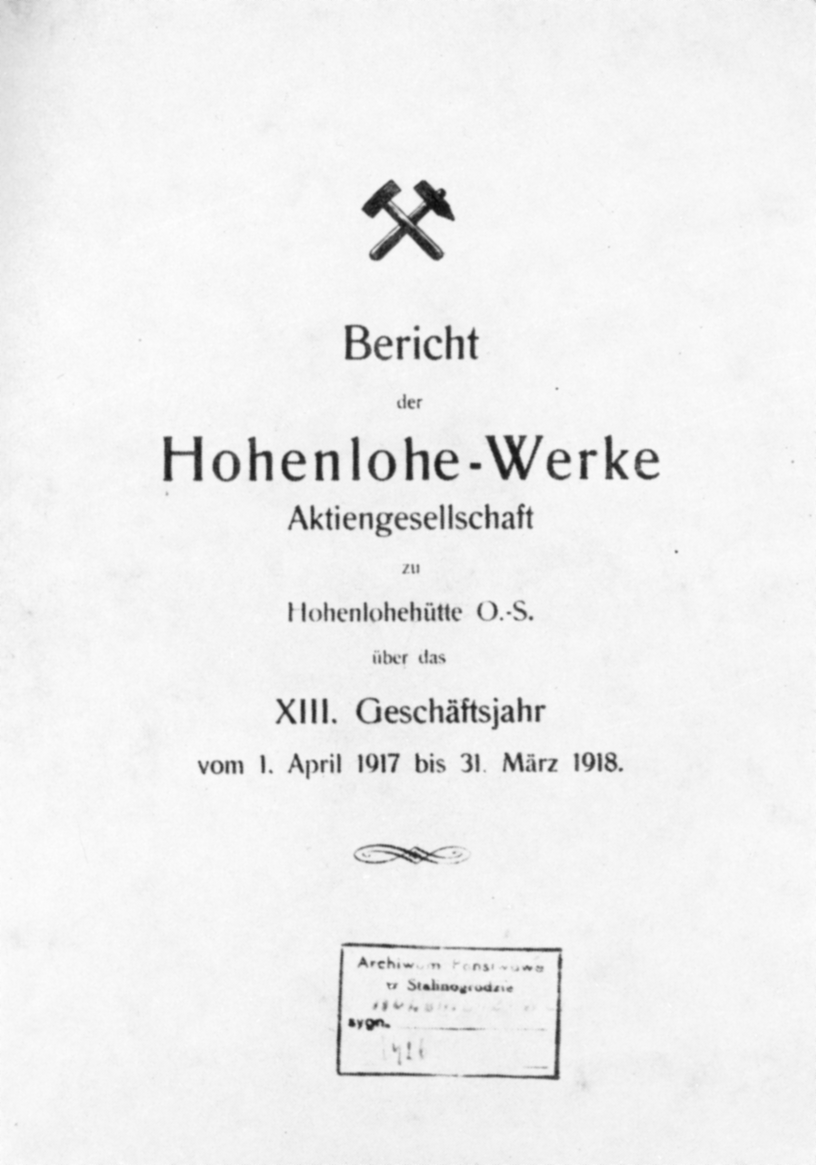 The title page of Hohenlohe-Werke report for 1.06.1917-31.03.1918